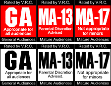 Recoloured version of ratings on games when they are boxed.